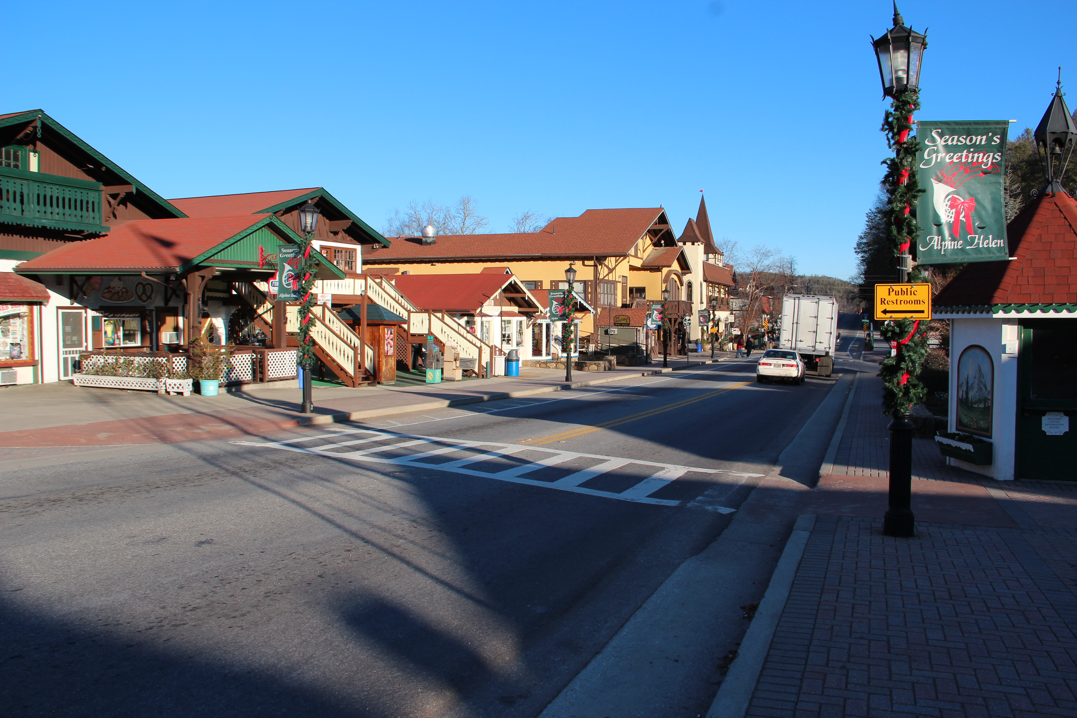 Helen, Georgia street scene